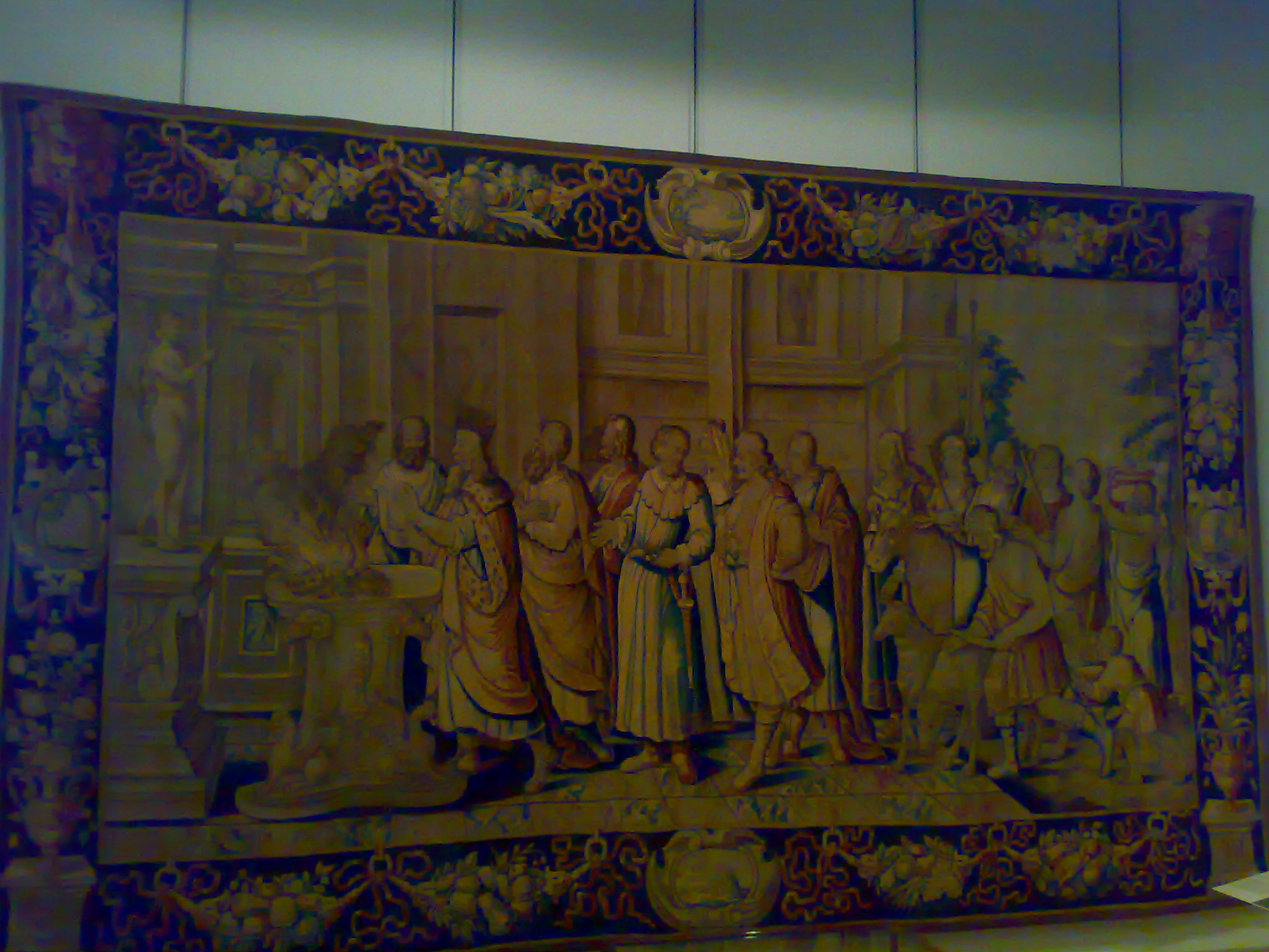 Wall carpet, Brugge (Belgium) mid 17th century, "Psyche's father consults oracle of Apollo", In History Museum, Brussel